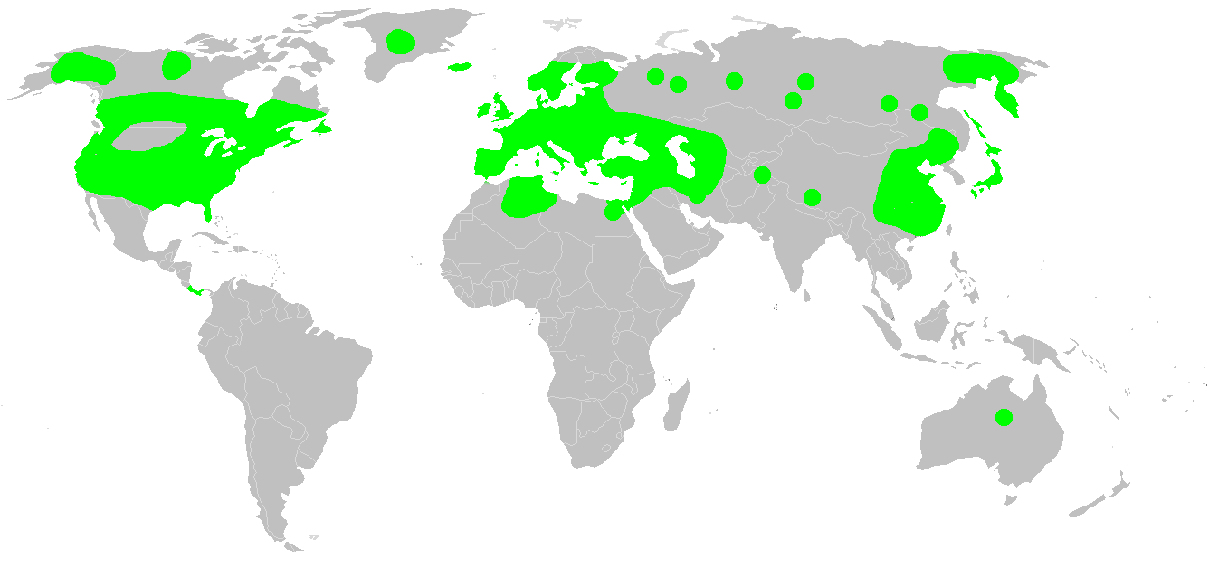 Known world distribution of Larinioides cornutus, after data from British Arachnological Society, 2007